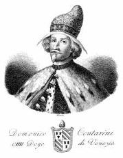 Domenico II Contarini (1585-1675)